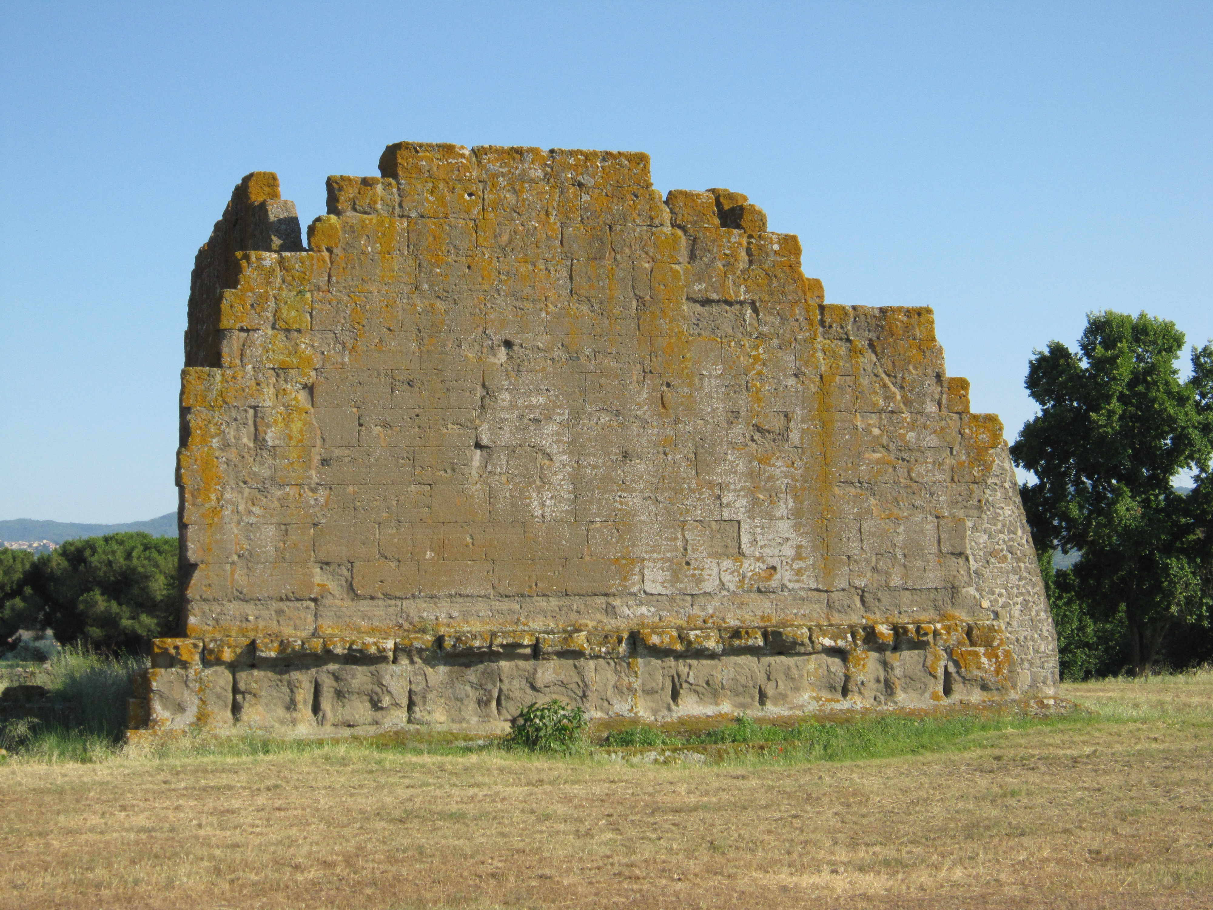 Sanctuary of Gabii, near Rome